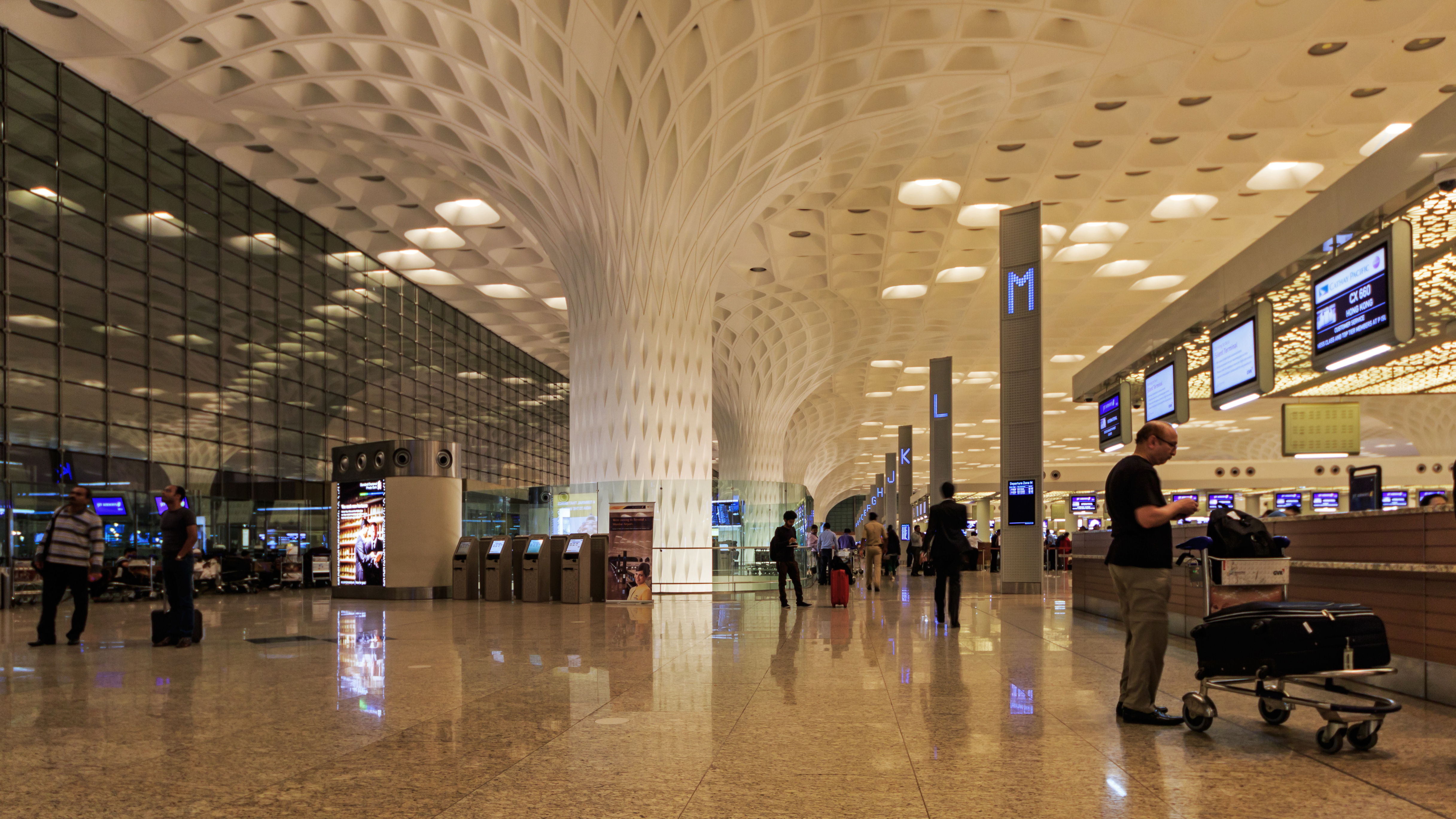 Interior of Chhatrapati Shivaji International Airport (International terminal) in Mumbai, India